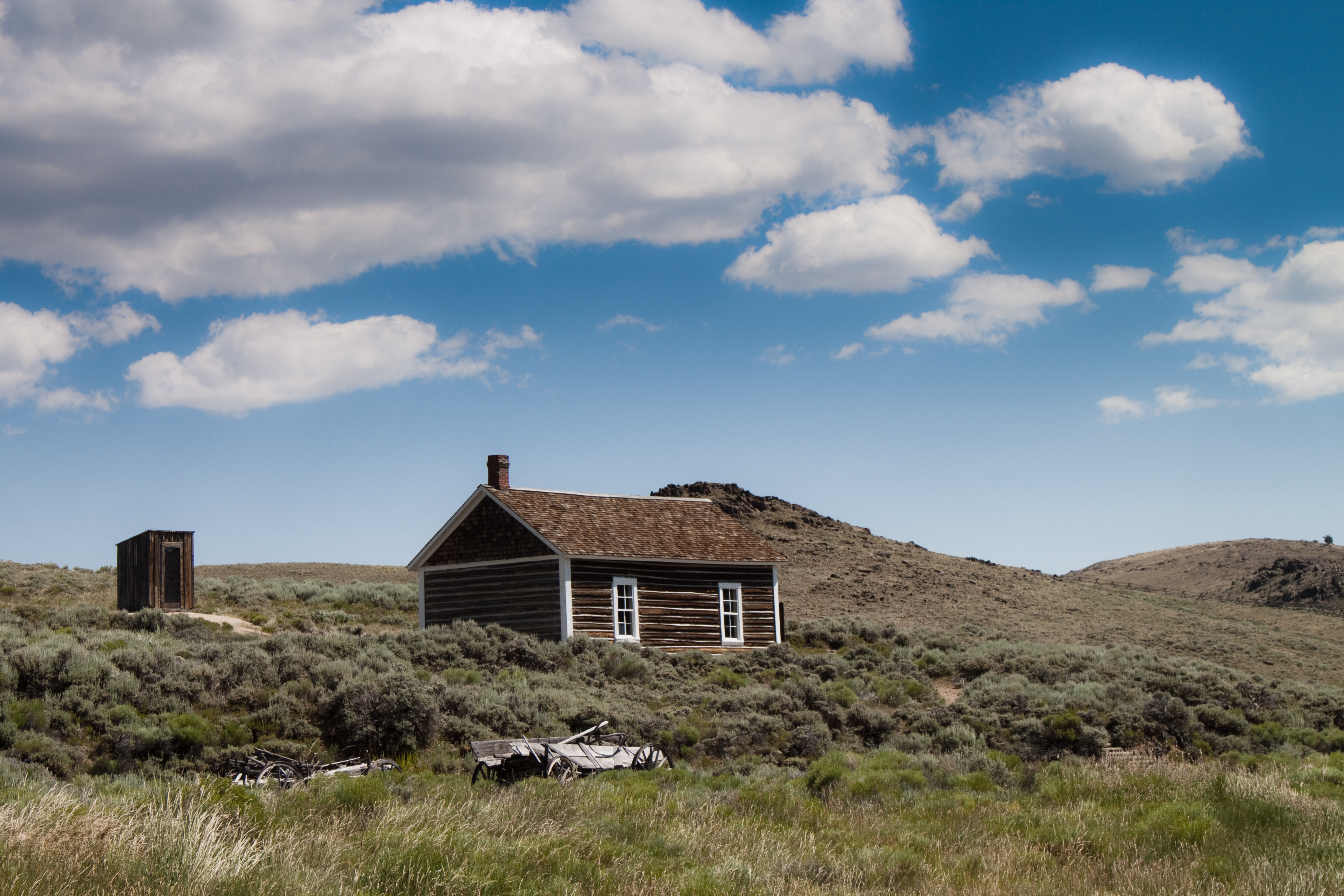 South Pass City, Wyoming, USA